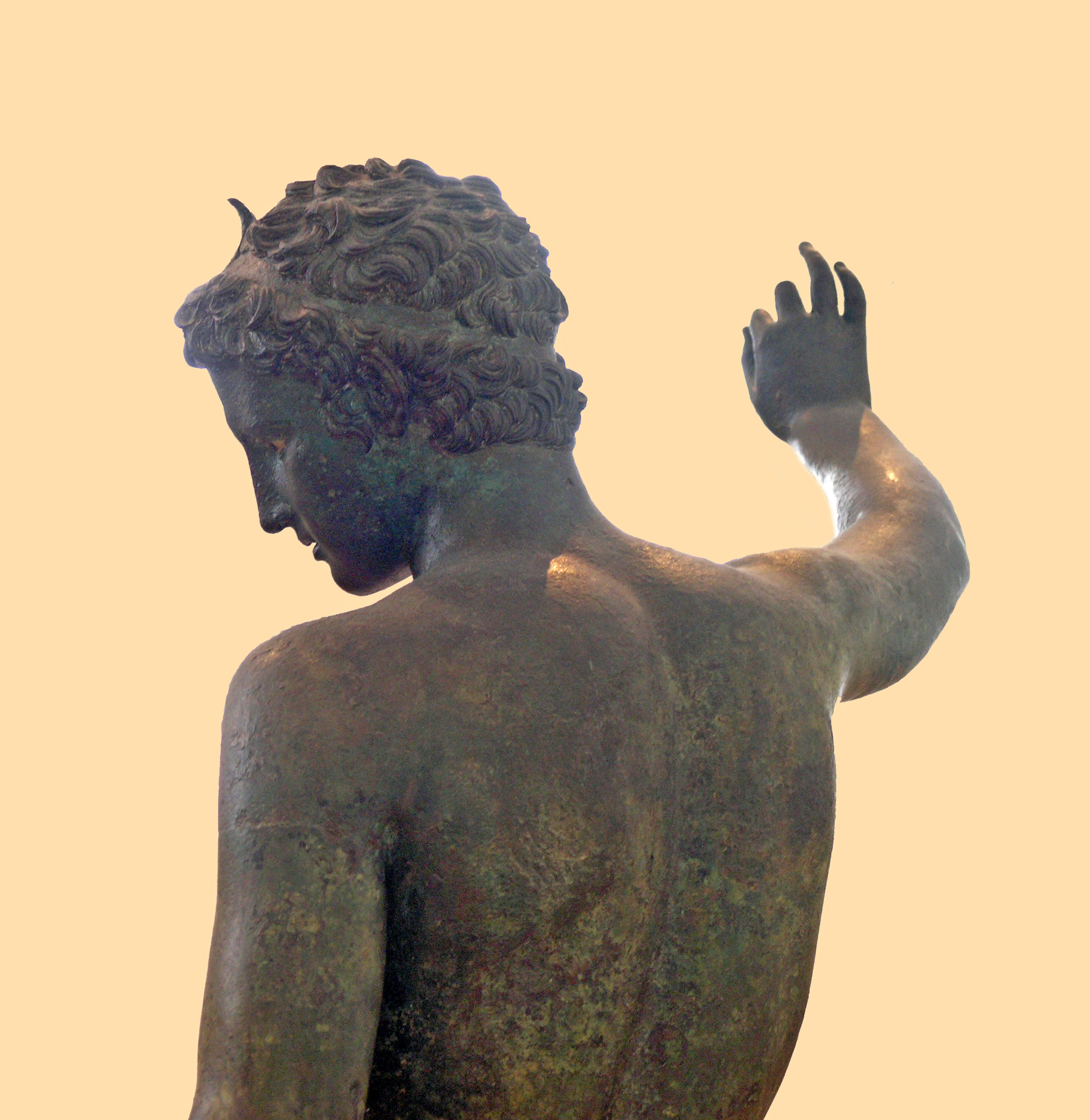 Marathon Youth or Ephebe of Marathon. Bronze statue of a young athlete, found in the sea near Marathon (Attic coast). The left hand was replaced at a later date by another shaped as a lamp. Work of the Praxiteles school, ca. 340-330 B.C.